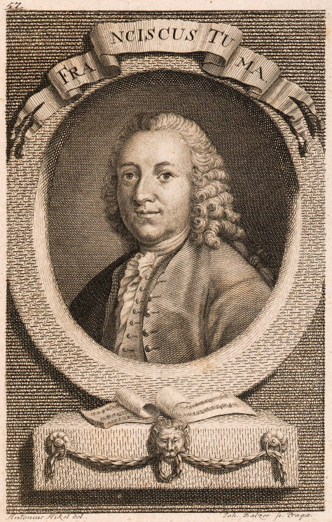 Czech composer František Tůma (1704-1774) [by Johannes Balzer?] after Anton Hickel (1745-1798)